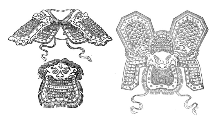 Drawing of Chinese rhinoceros hide armour from William Raymond Gingell's The Ceremonial Usages of the